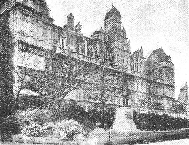 Offices of the London School Board by Bodley and Garner, 1872-76. Demolished 1929. (Fys).